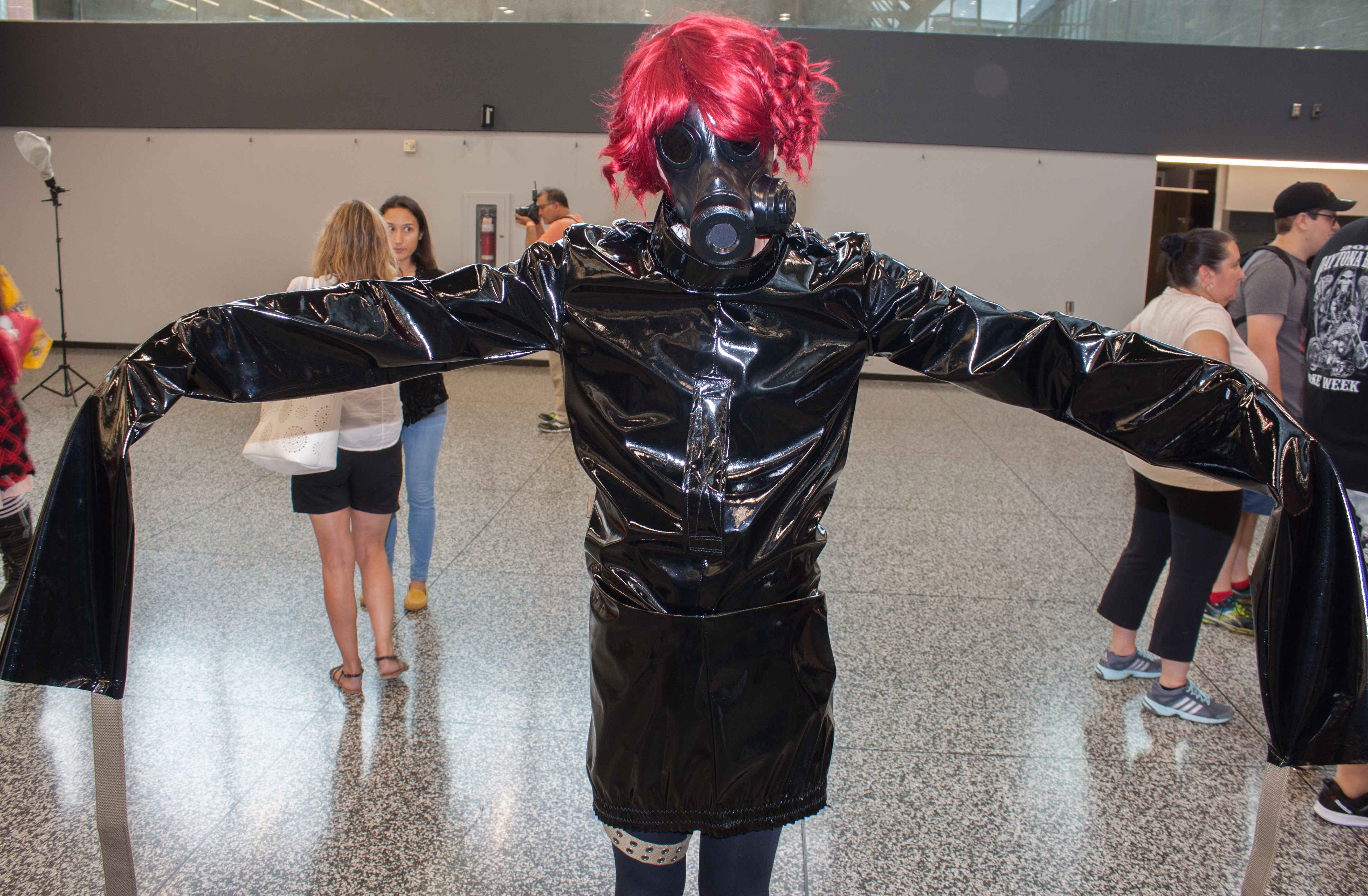 Cosplay on Friday, day one, of the Montreal Comiccon 2016.